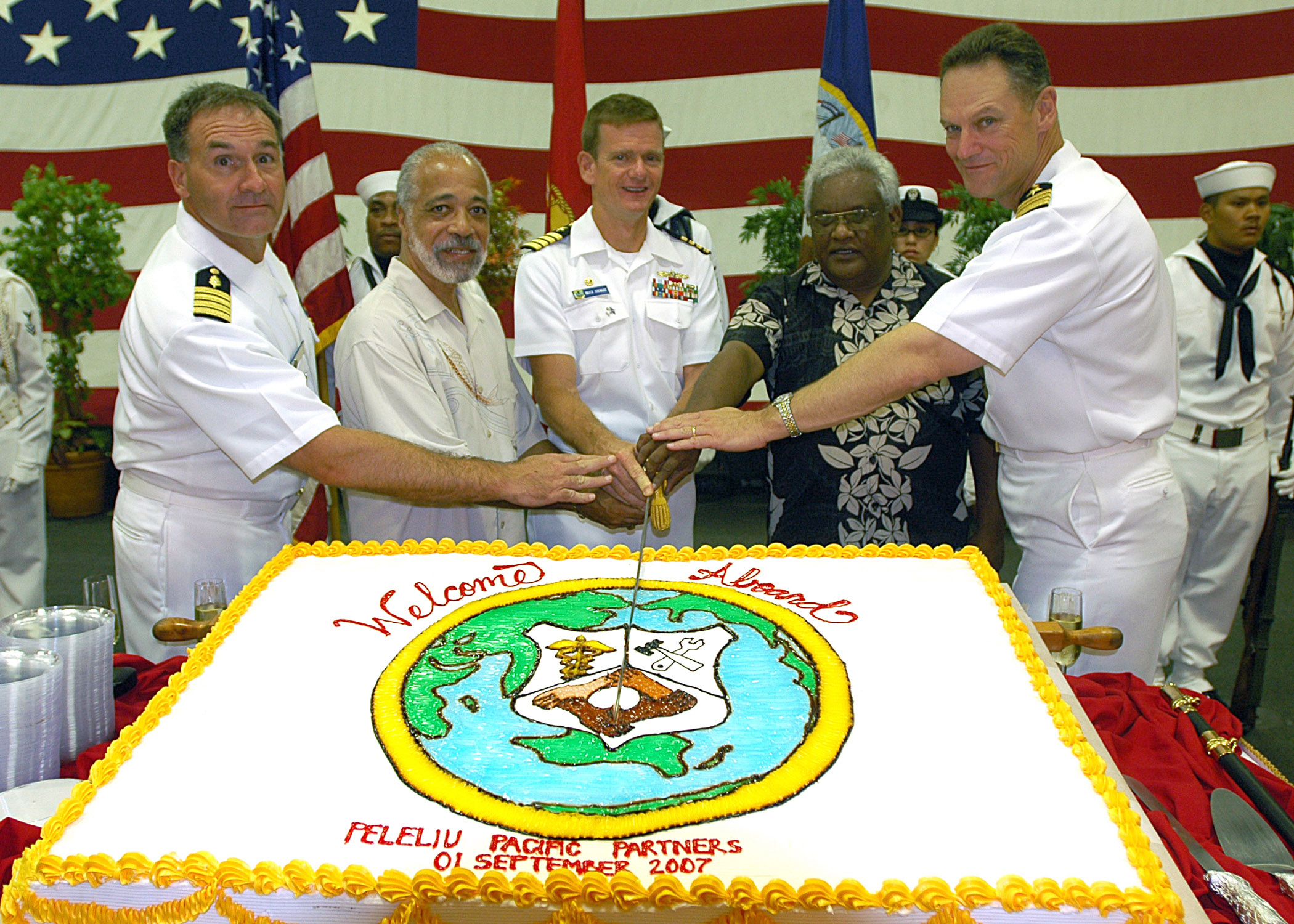 MAJURO, Republic of the Marshall Islands (Sept. 1, 2007) - Pacific Partnership medical contingent commander, Capt. Scott Flinn; joined by U.S. Ambassador to the Republic of the Marshall Islands, the Honorable Clyde Bishop; Marshall Islands Minister in Assistance to the President, Witten T. Philippo; Pacific Partnership commander, Capt. Bruce Stewart; and USS Peleliu Commanding Officer, Capt. Ed Rhoades cut a ceremonial cake during a reception held in Peleliu’s hangar bay. Local government officials and Pacific Partnership members joined to celebrate medical, dental and engineering civic action programs accomplished during the 10-day event. U.S. Navy photo by Mass Communication Specialist 2nd Class Kerryl Cacho (RELEASED)